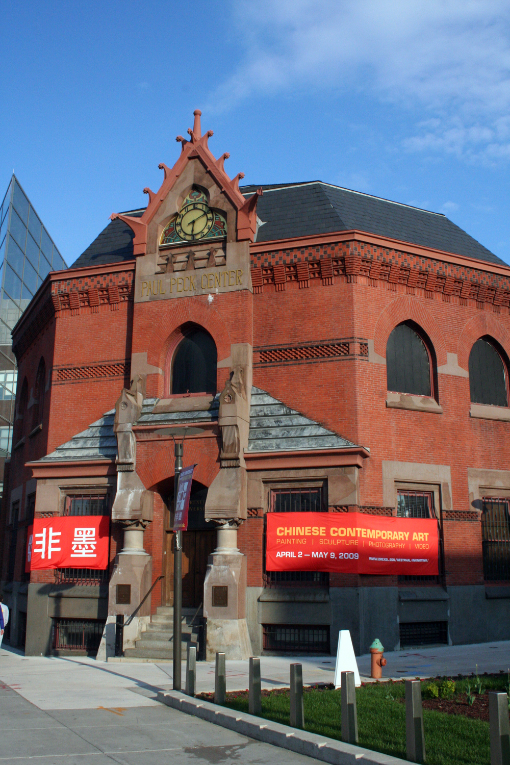 The outside of the Paul Peck Alumni Center, formally the Centennial National Bank.